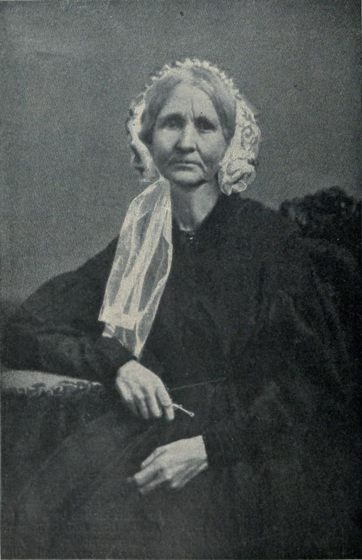 Photograph of Hannah Simpson Grant, mother of Ulysses S. Grant. From an original photograph owned by Helen M. Burke, La Crosse, Wisonsin